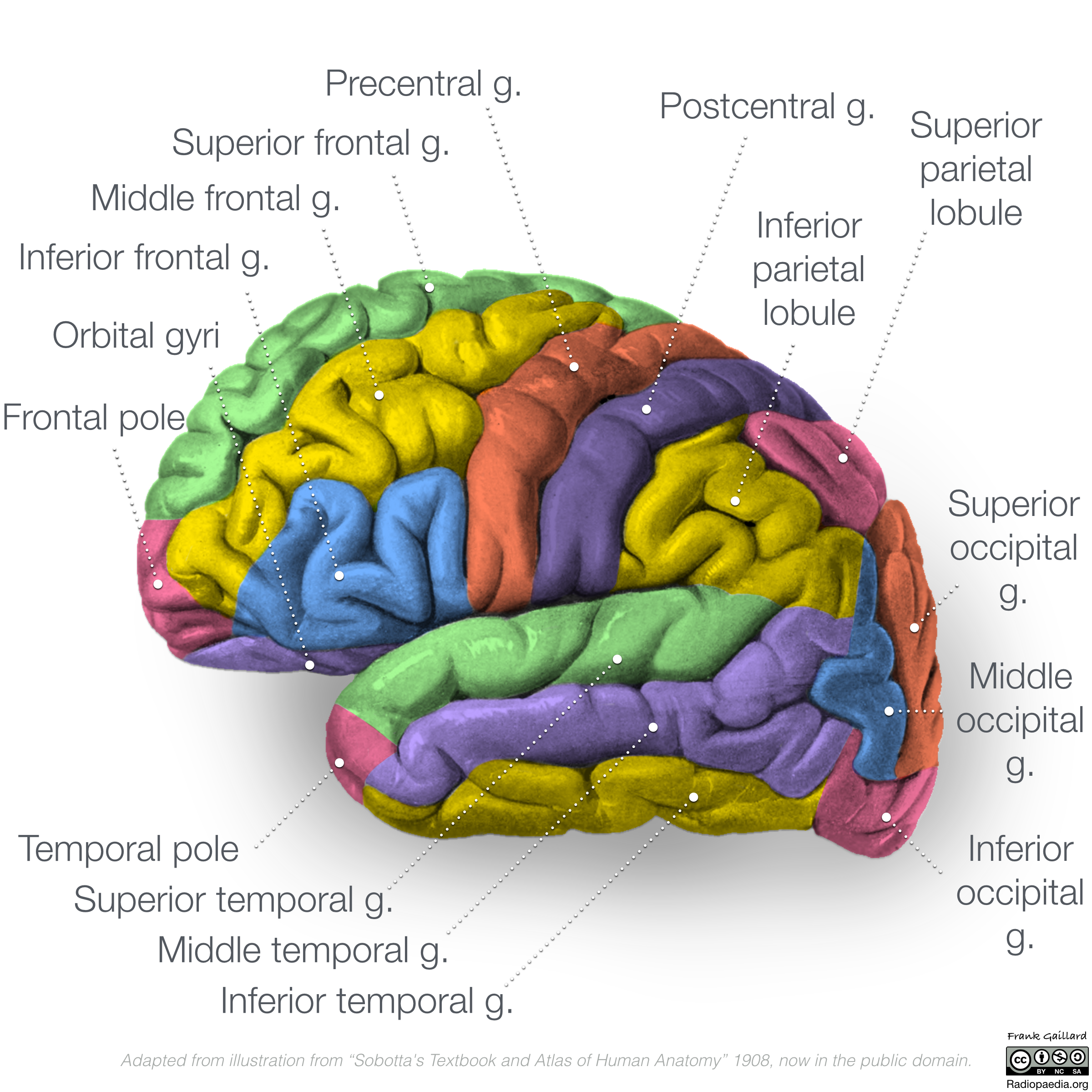 Diagram of the gyri of the lobes of the brain shown on lateral view of hemisphere